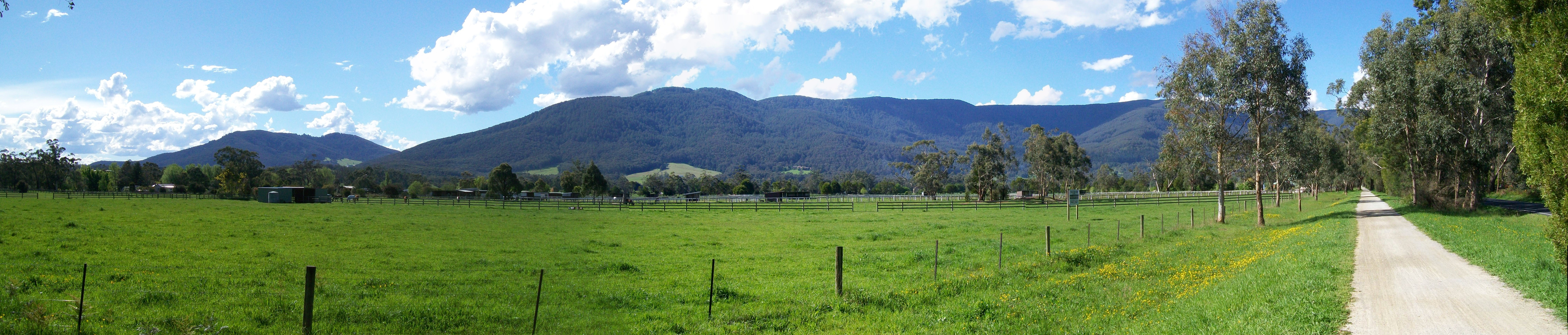 Lilydale to Warburton Rail Trail, Wesburn, Victoria (panorama)